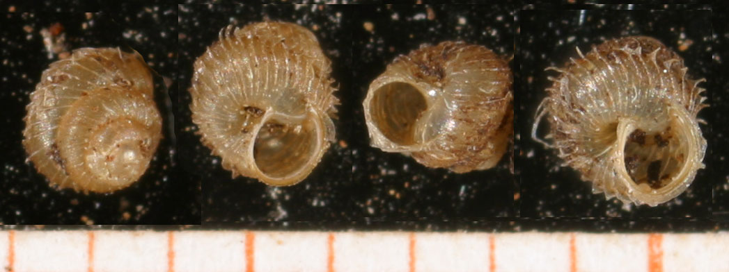 Photo of Acanthinula aculeata. Scale in mm. Locality: Portugal: below Castro Mouro near Sintra. Date: 01-05-1963.